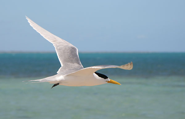 Crested Tern in flight Penguin Island, Rockingham, Western Australia taken by Martin Pot (User:Martybugs)